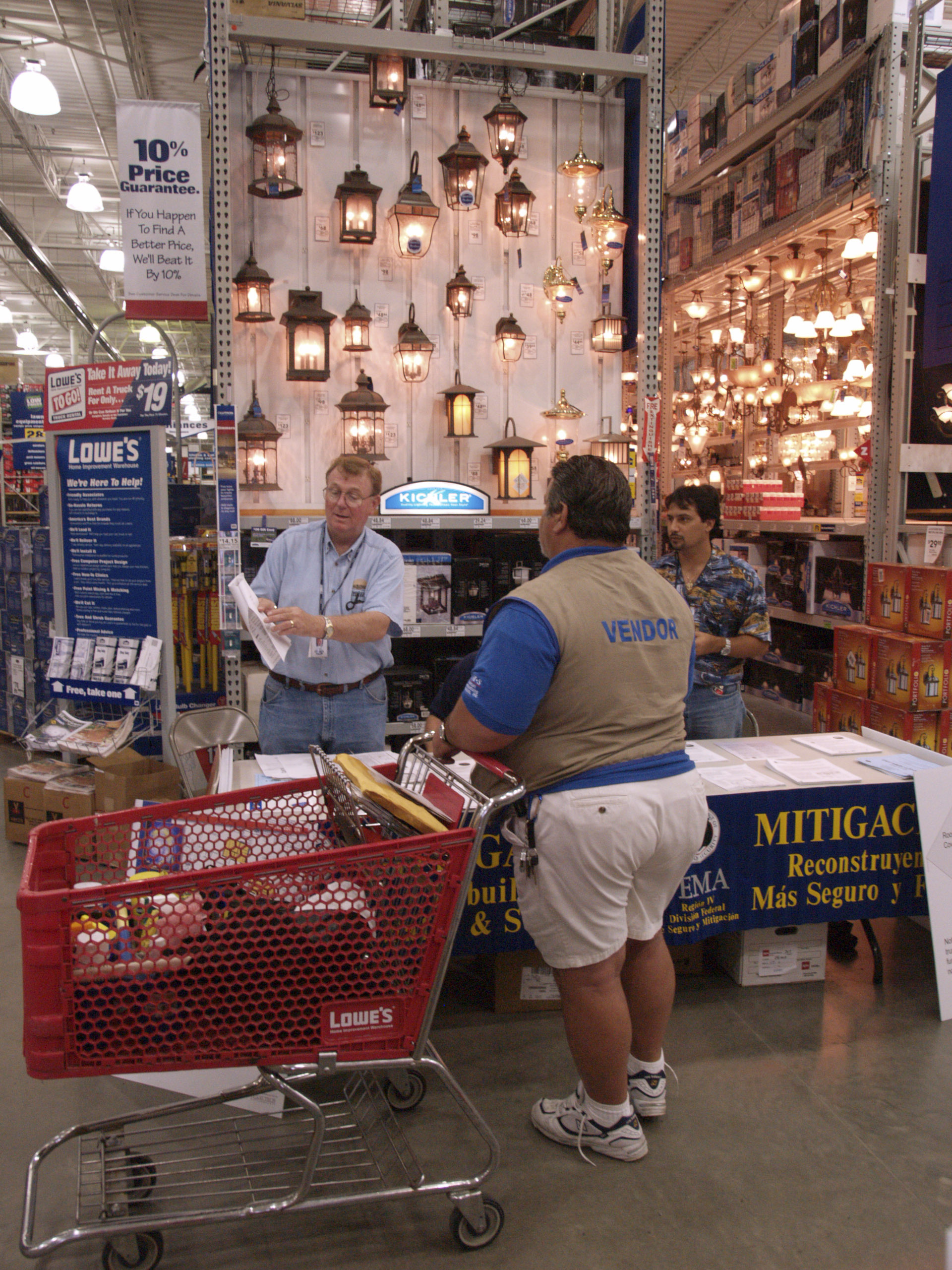 Orlando, FL, September 20, 2004 -- Paul Fox from FEMA's mitigation talks with a local vendor about Florida's contractor web site at Lowes Hardware store. Photo: Michael Rieger/FEMA